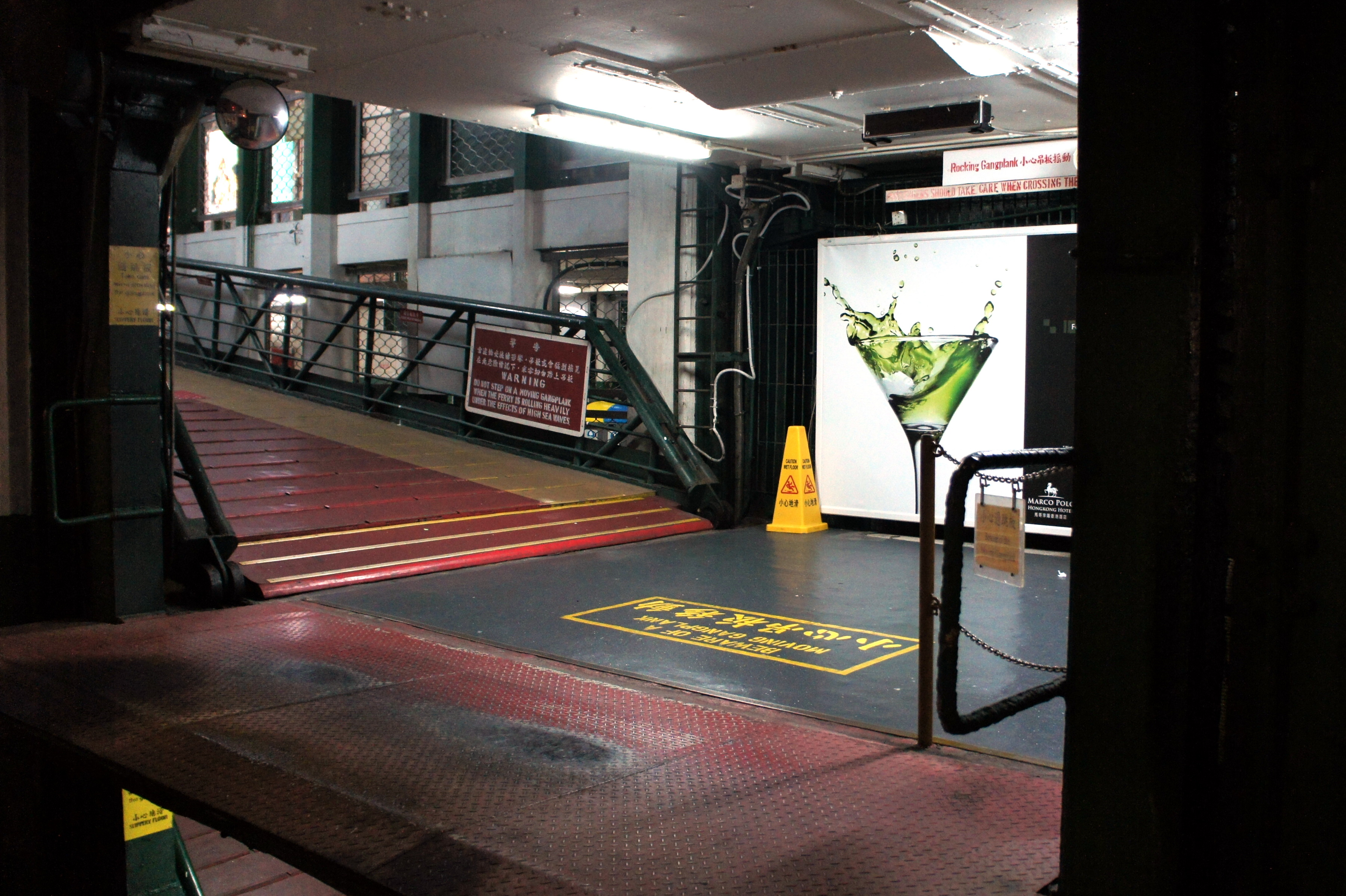 Shoregangway, Tsim Sha Tsui Ferry Pier, Kowloon, Hong Kong.